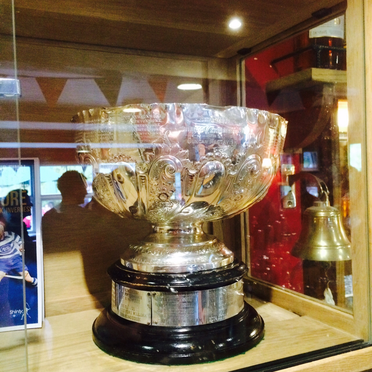 The MacTavish Cup